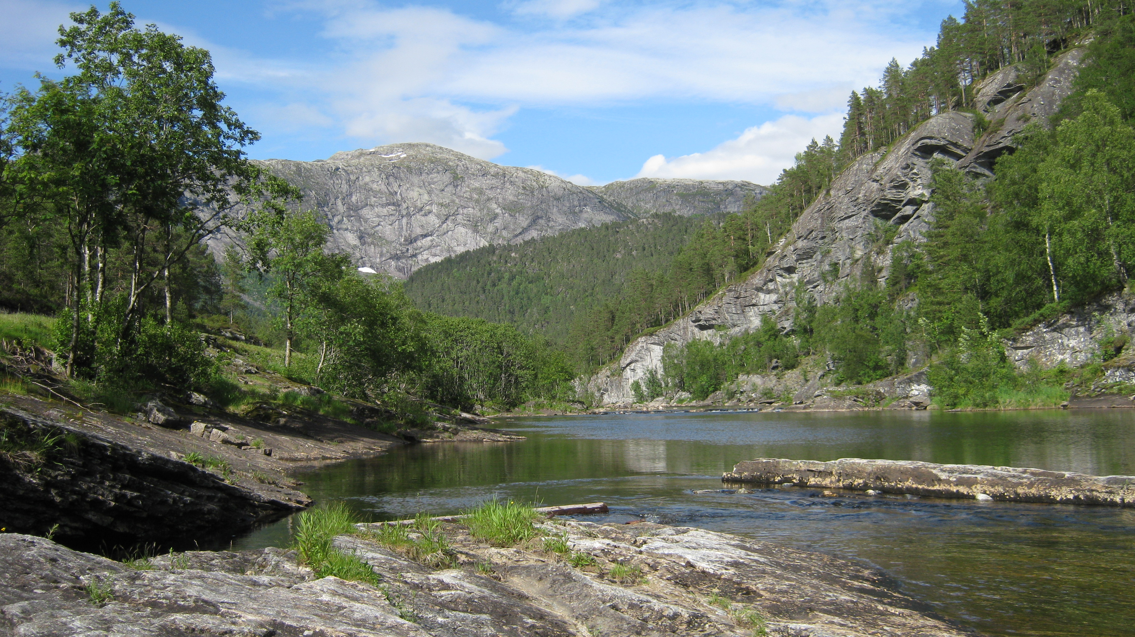 The river Ekso in Eksingedalen, Vaksdal, Hordaland, Norway